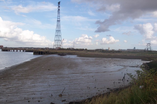 Mudflats on the River Thames in the United Kingdom. The 400 kV Thames Crossing, shown in the background, is an overhead power line crossing of the river near West Thurrock. The towers are the tallest electrical pylons in the UK.